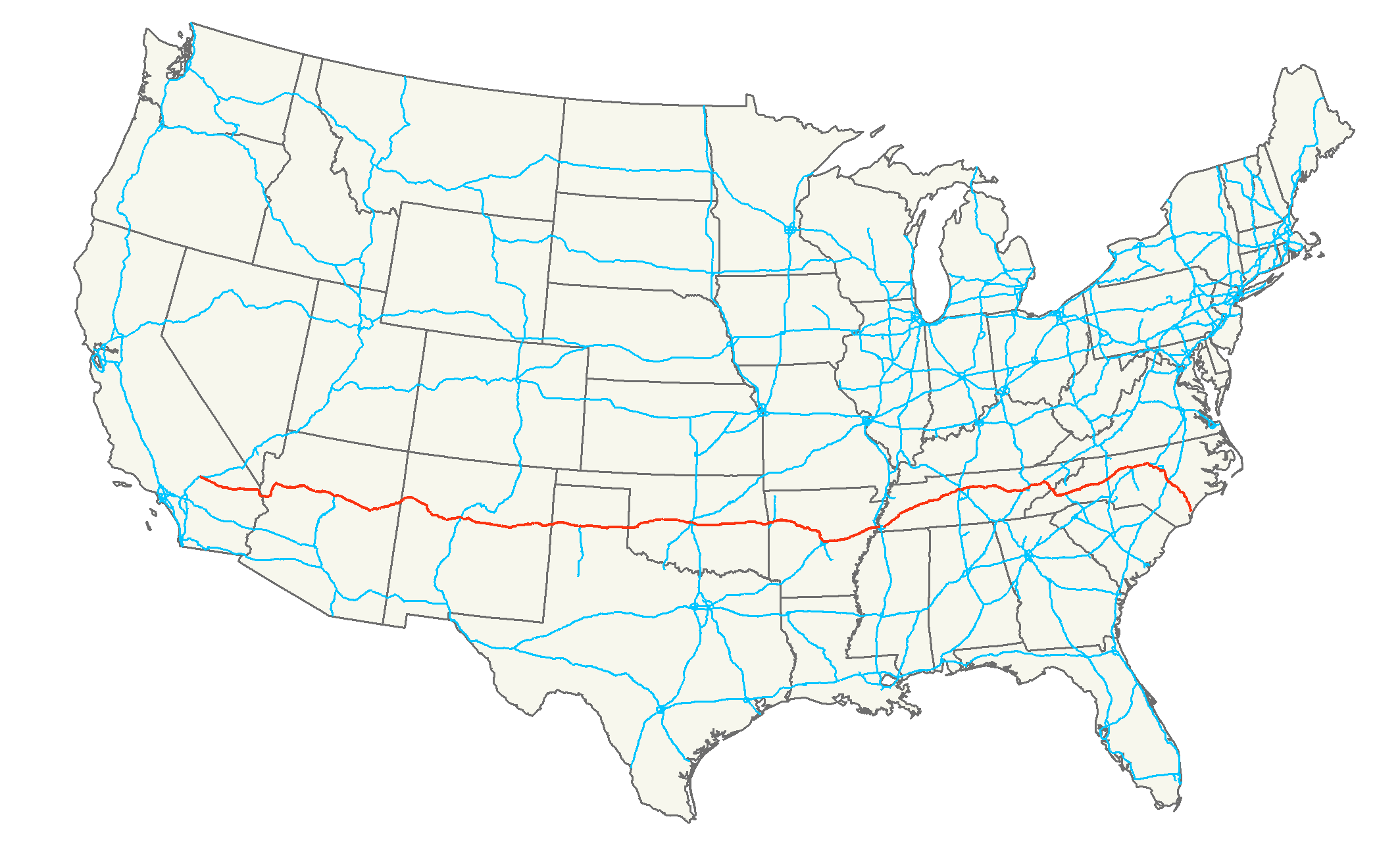 Map of Interstate 40